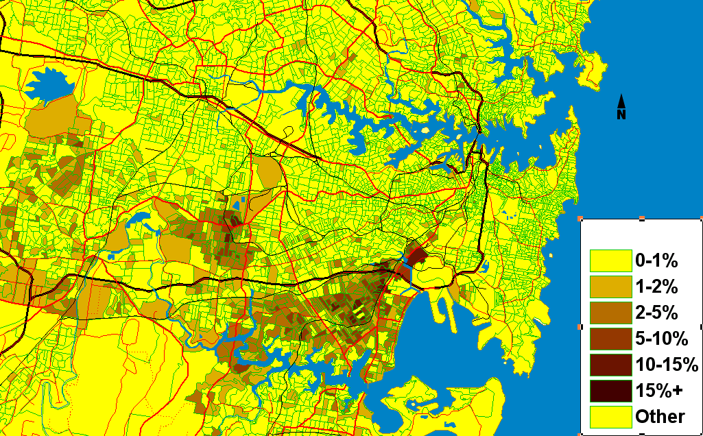 Proportion of persons who speak Macedonian at home out of total population in each Census District in Sydney, 2006 Census